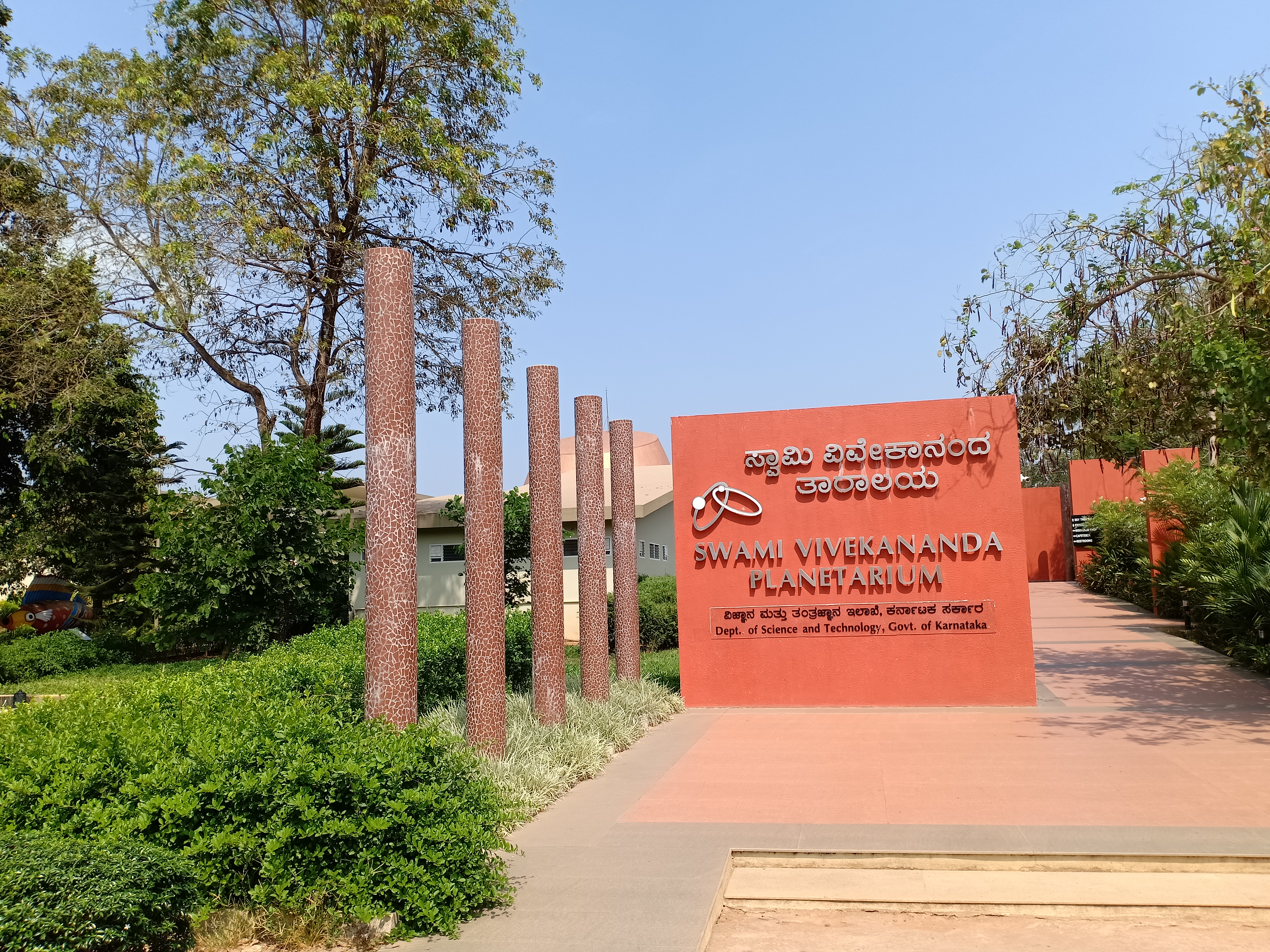 Entrance to Swami Vivekananda Planetarium at Pilikula in Mangalore